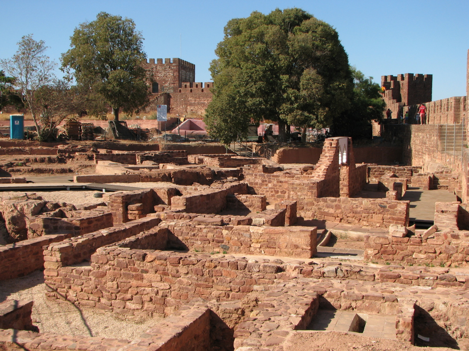 Silves castle - ancient capital of Algarve - The Algarve, Portugal